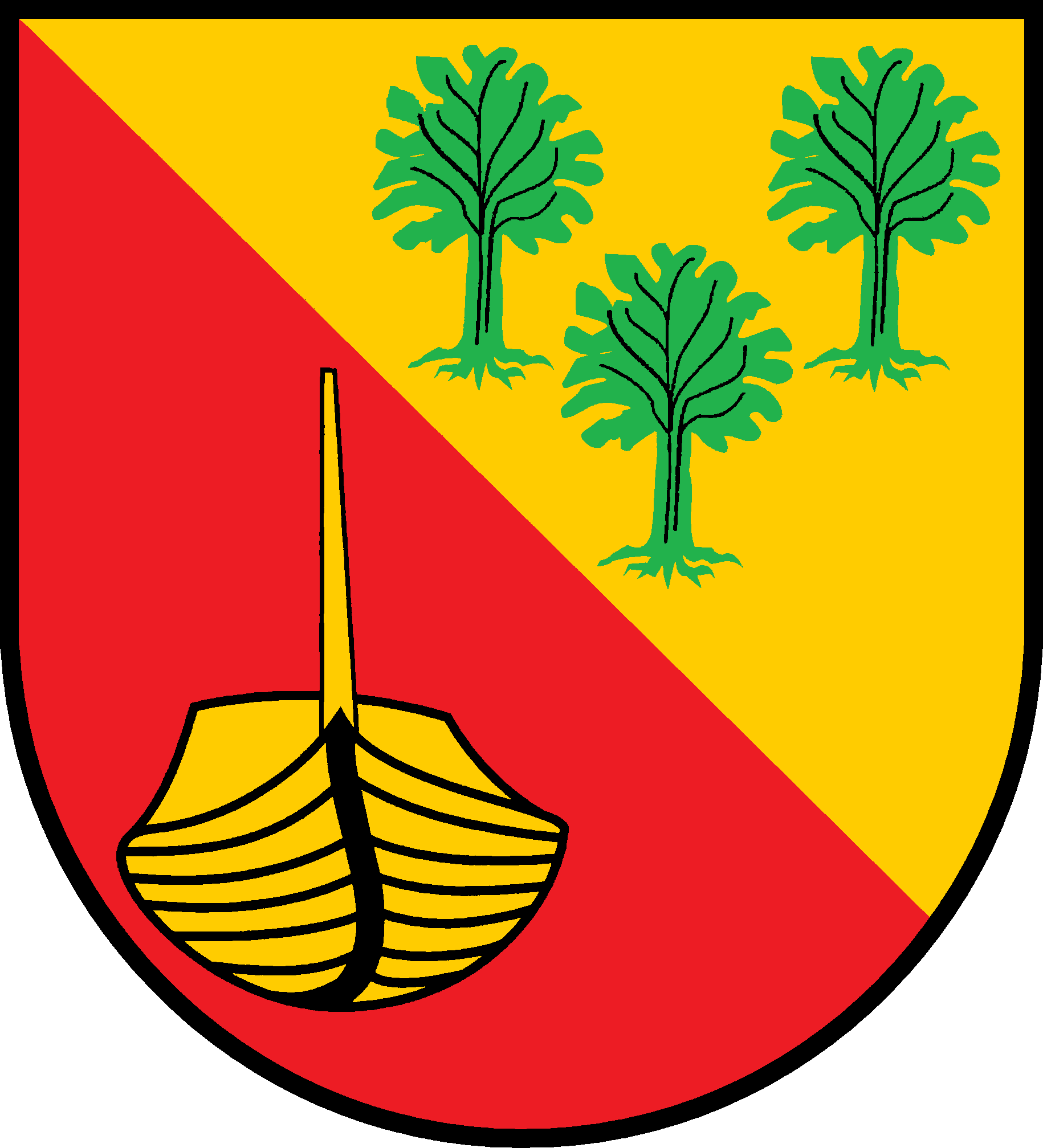 Coat of arms of the municipality Schiphorst in Schleswig-Holstein, Germany.